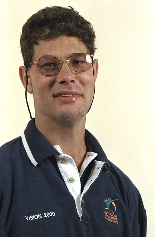 Portrait of Australian athletics competitor Brian Harvey, 2000 Australian Paralympic Team athlete